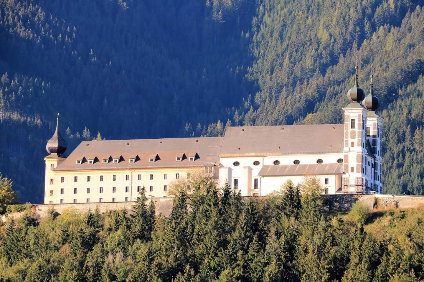 Sanctuary Frauenberg an der Enns (Austria)